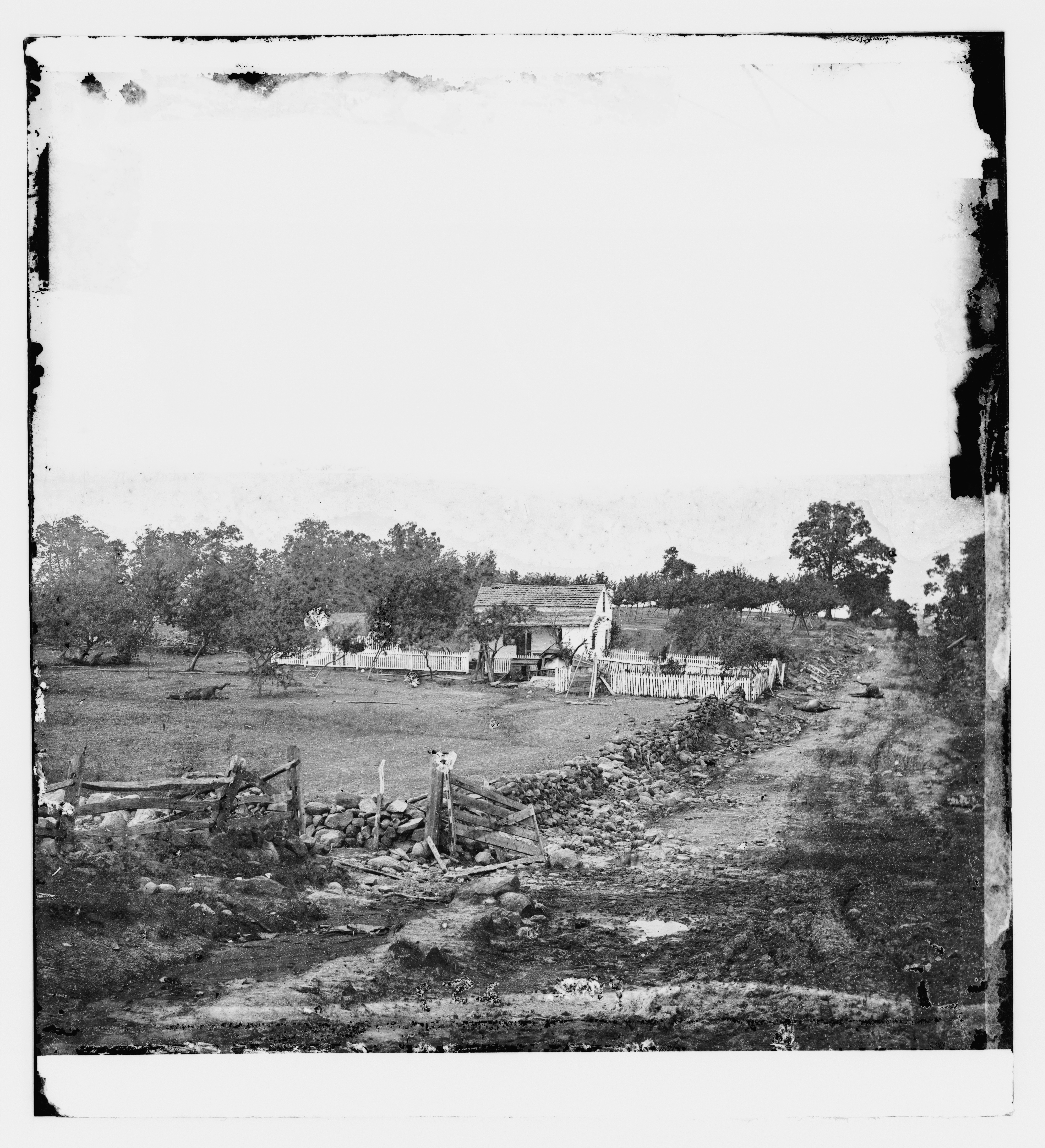 Gettysburg, Pa. Headquarters of Gen. George Meade on Cemetery Ridge.